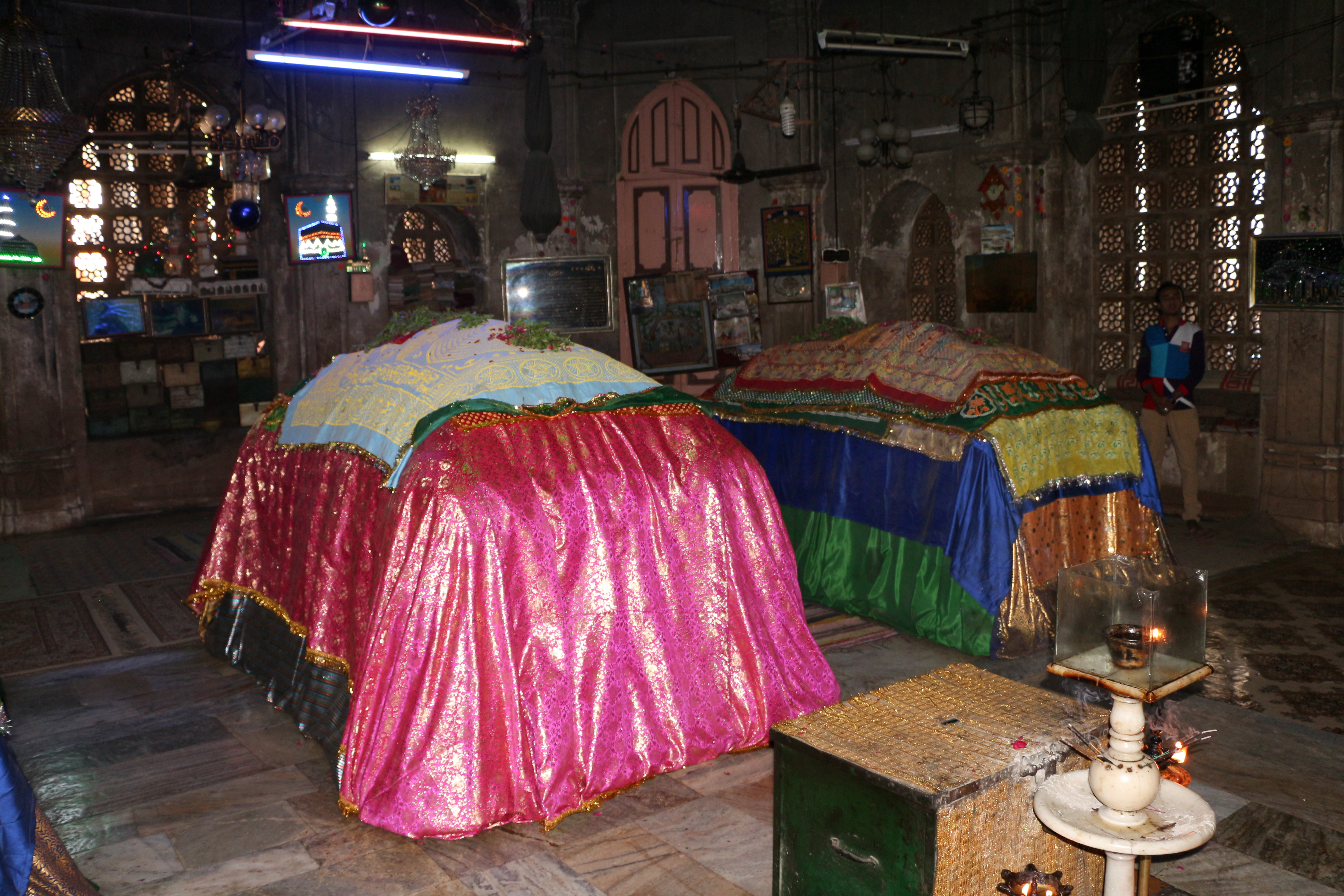 Tomb of Ahmed Shah I, Ahmedabad, India